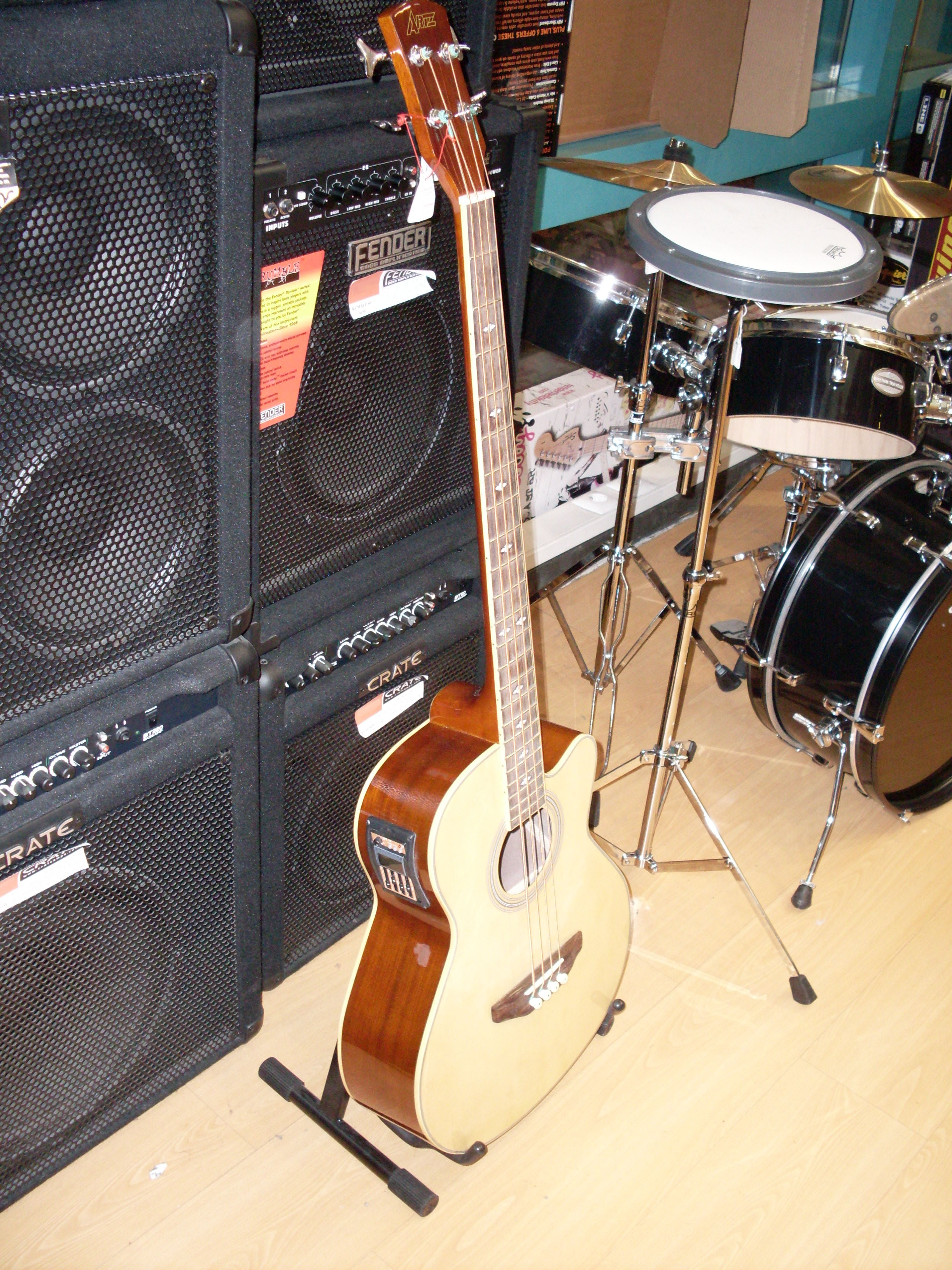 An acoustic bass guitar in a store.